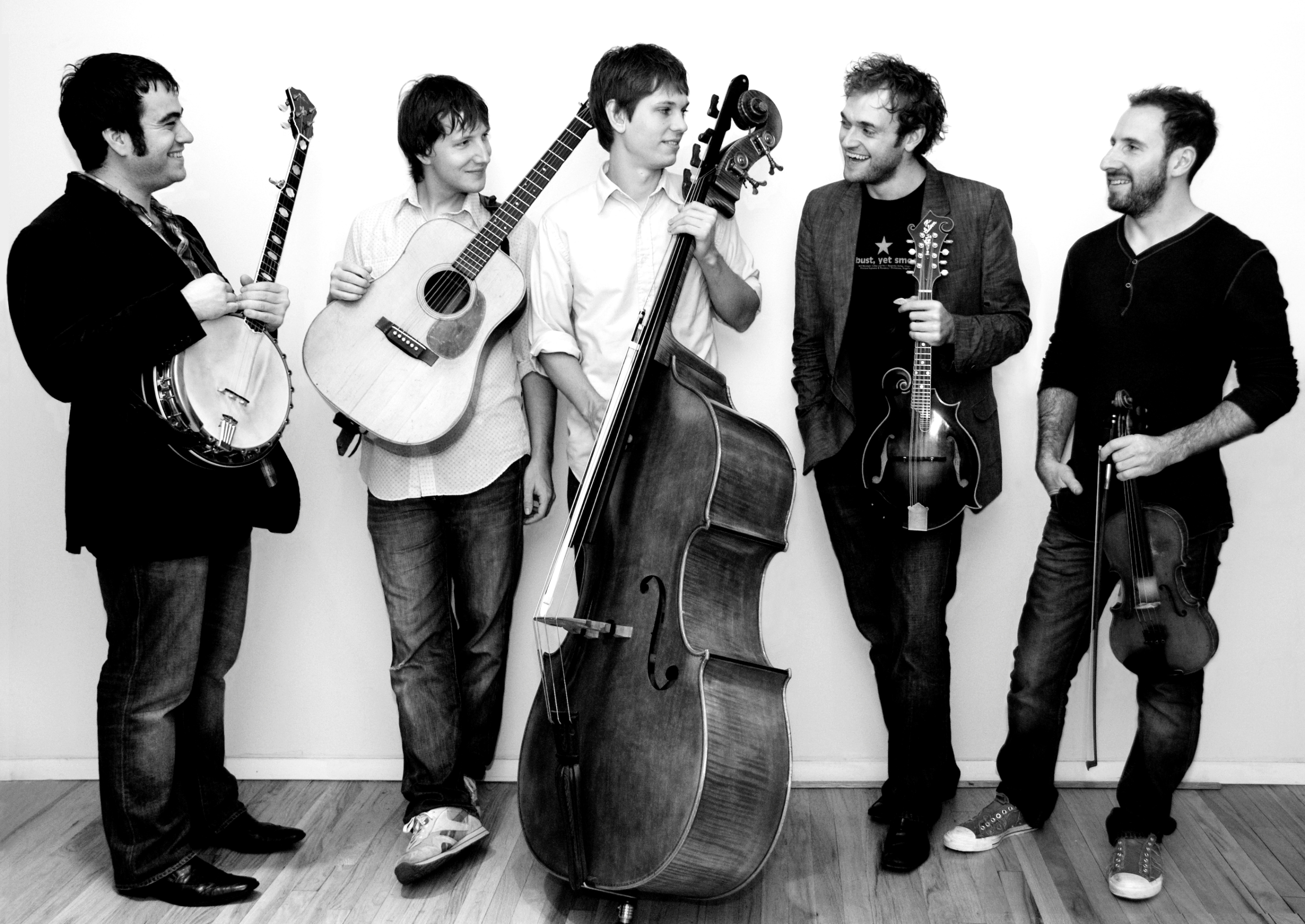 American bluegrass group, Punch Brothers